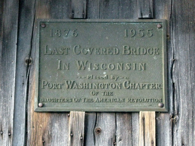 Covered Bridge, Cedarburg, Wisconsin - plaque